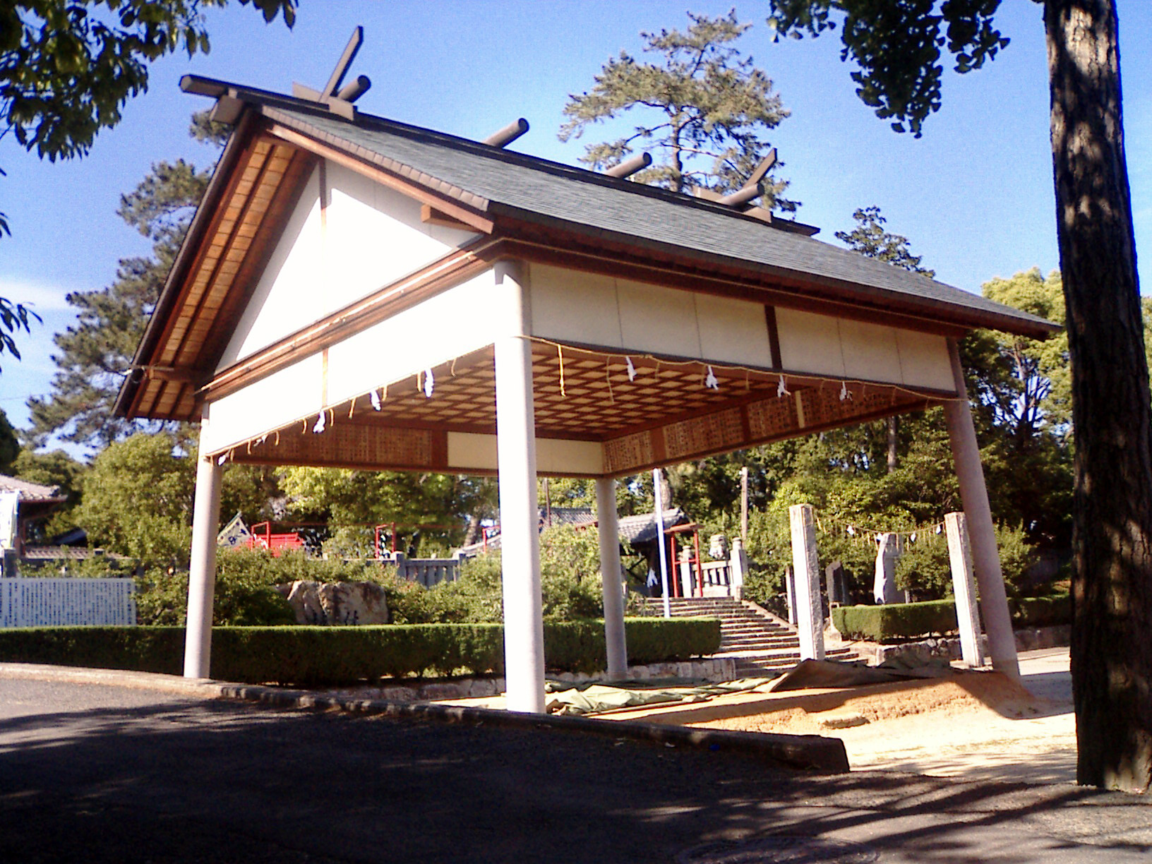 Dohyo